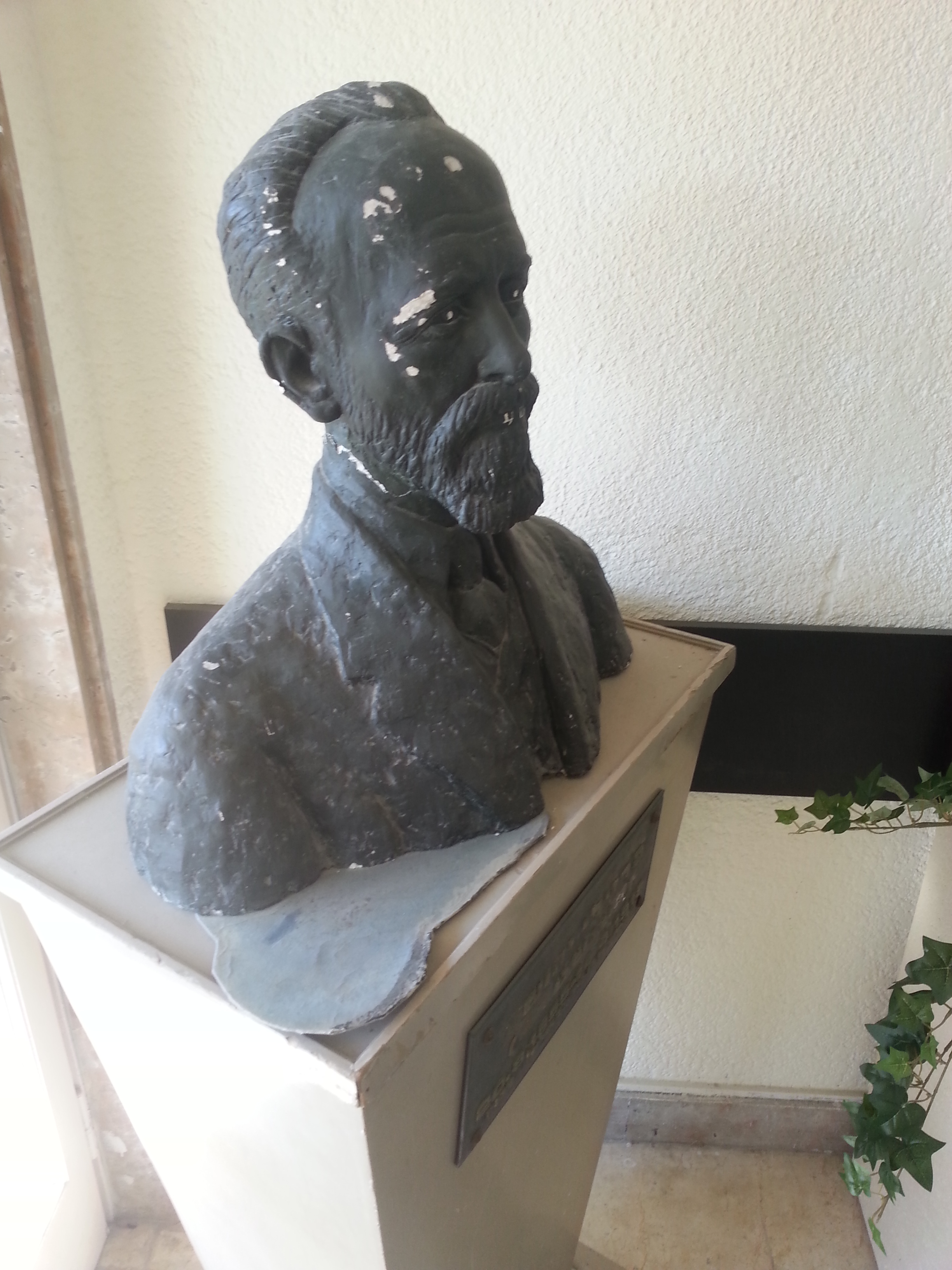 a statue at the Histadrut building in Tel Aviv